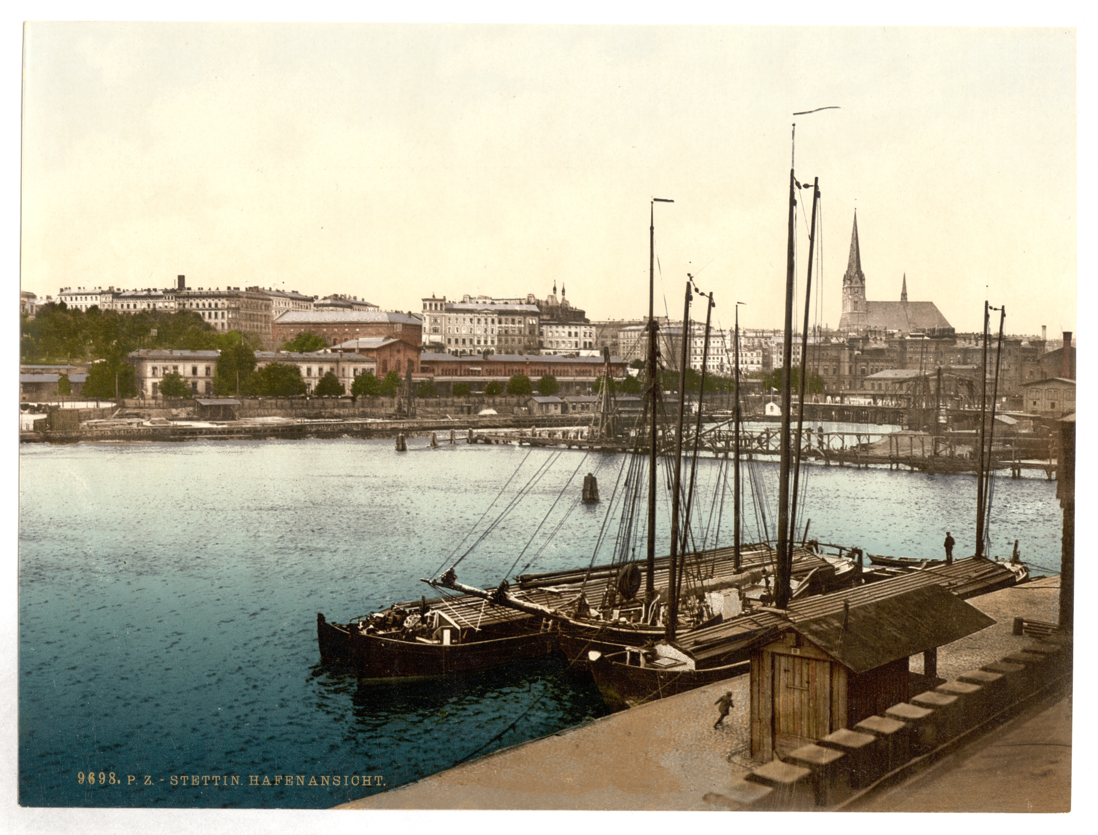 Title from the Detroit Publishing Co., catalogue J-foreign section. Detroit, Mich. : Detroit Photographic Company, 1905.; Print no. "9698".; Forms part of: Views of Germany in the Photochrom print collection.